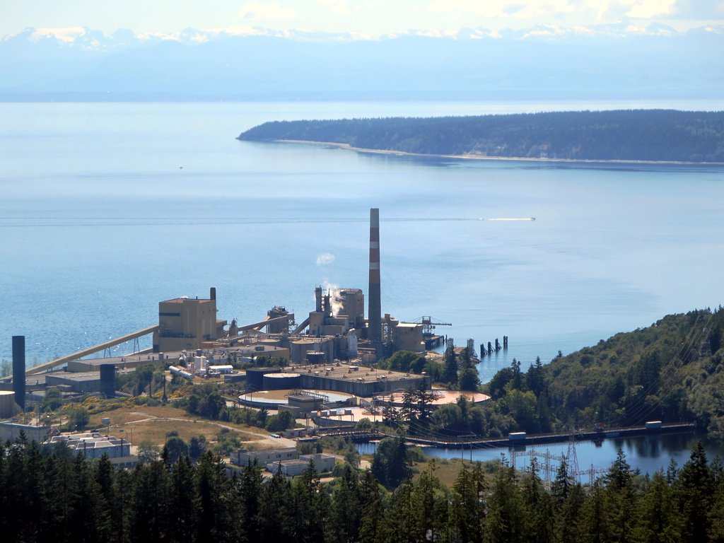 The Catalyst Paper Mill (1910) at Powell River, British Columbia, was the first and largest newsprint manufacturer in Western Canada. The Powell Lake Dam is on the right.